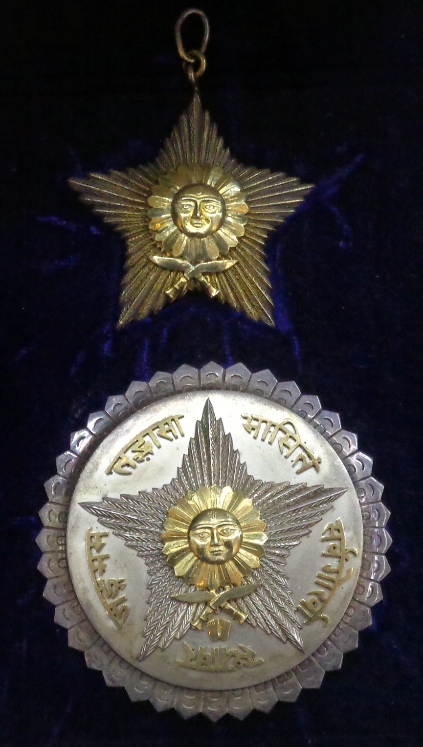 Order of the Gorkha Dakshina Bahu 2nd class, badge and star. Kingdom of Nepal. The exhibition of the Tallinn Museum of Orders of Knighthood, Estonia.